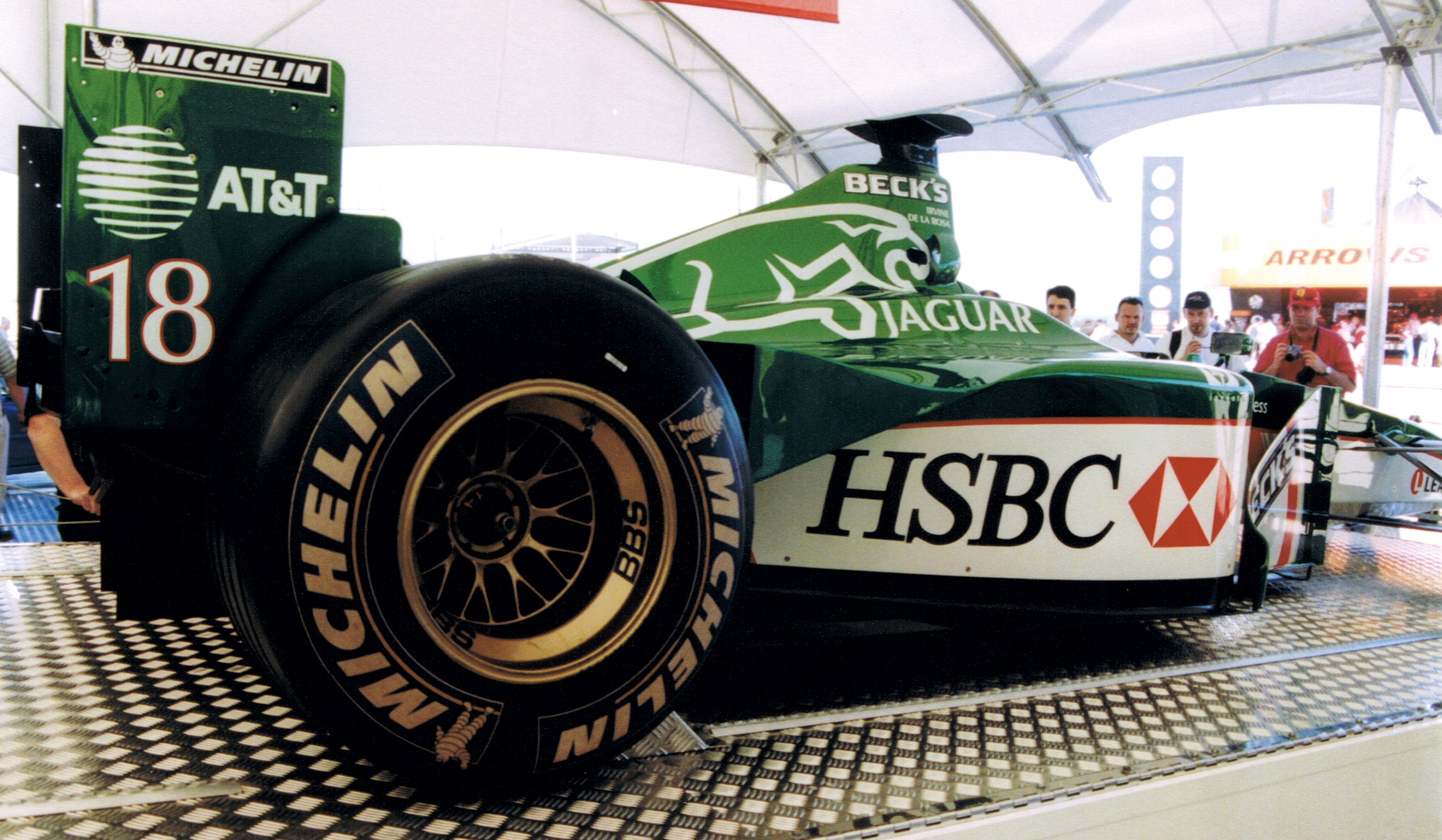 Side view of Eddie Irvine's Jaguar R2 exposed at the 2001 French Grand Prix